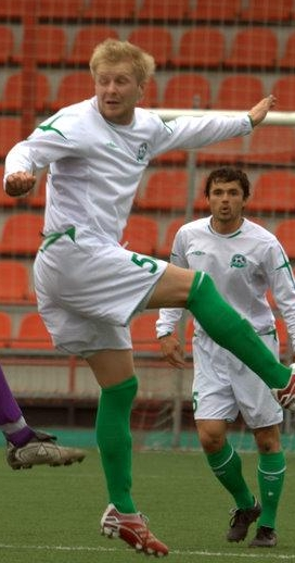 Denis Malinin in action for FC Zelenograd